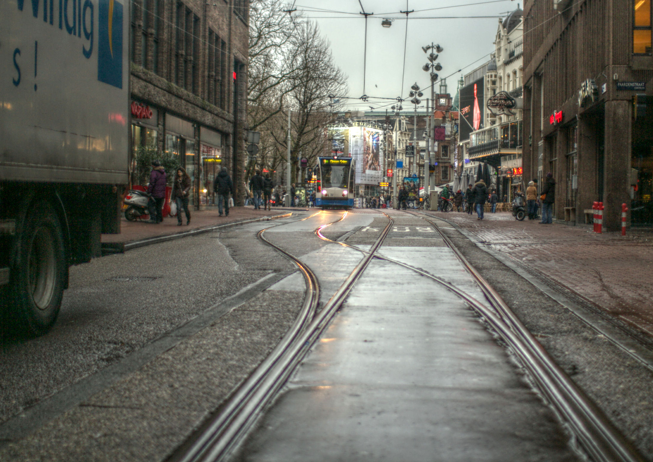 Gauntlet track in the Amstelstraat in Amsterdam